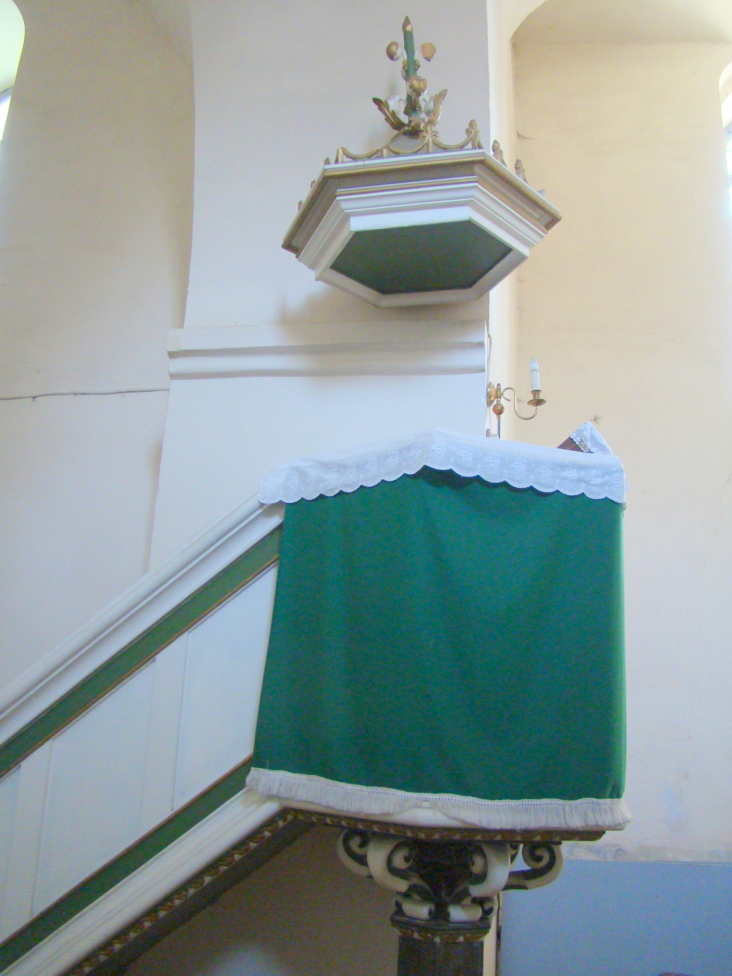 Lutheran church in Daneș, Mureș county, Romania